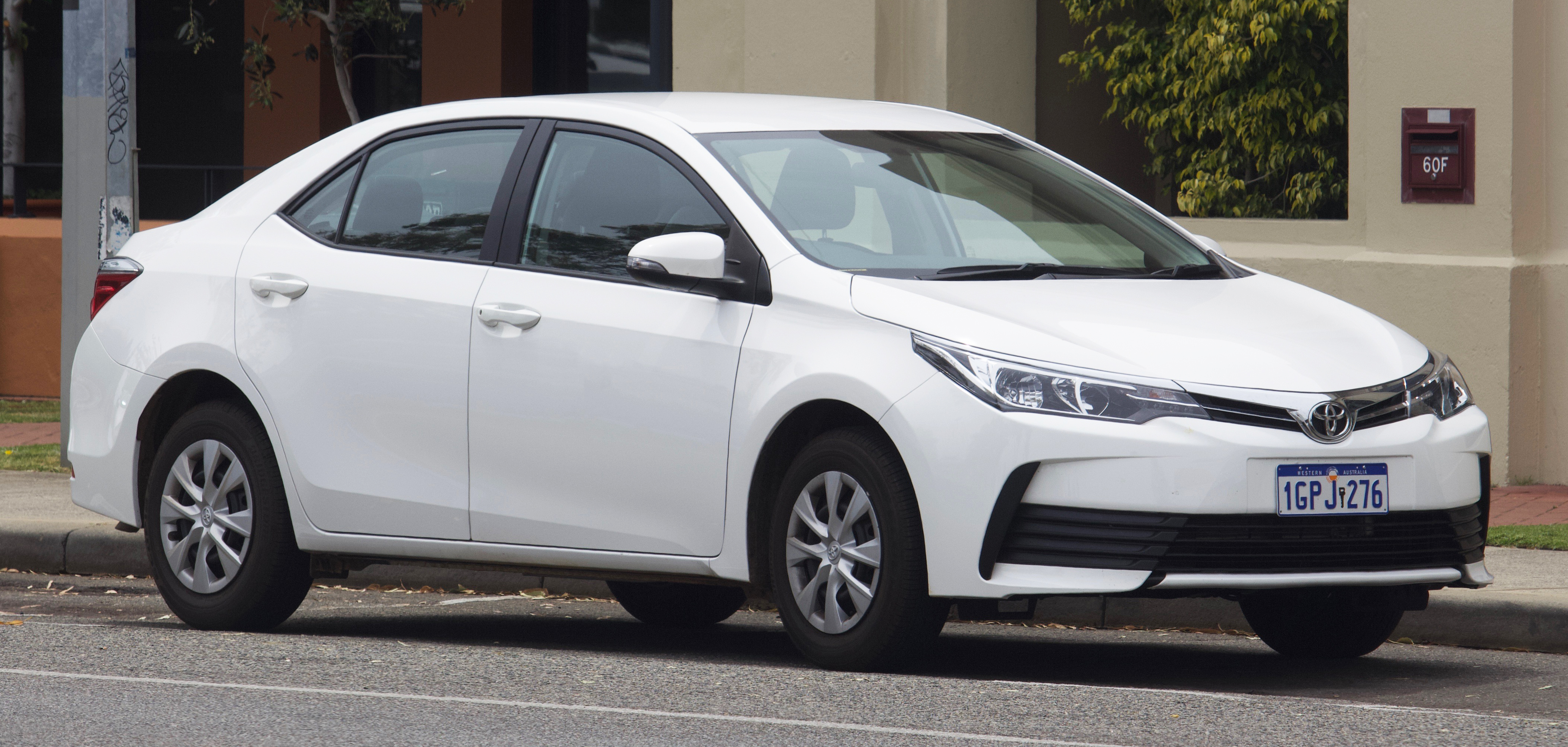 2018 Toyota Corolla (ZRE172R) Ascent sedan. Photographed in Fremantle, Western Australia, Australia.